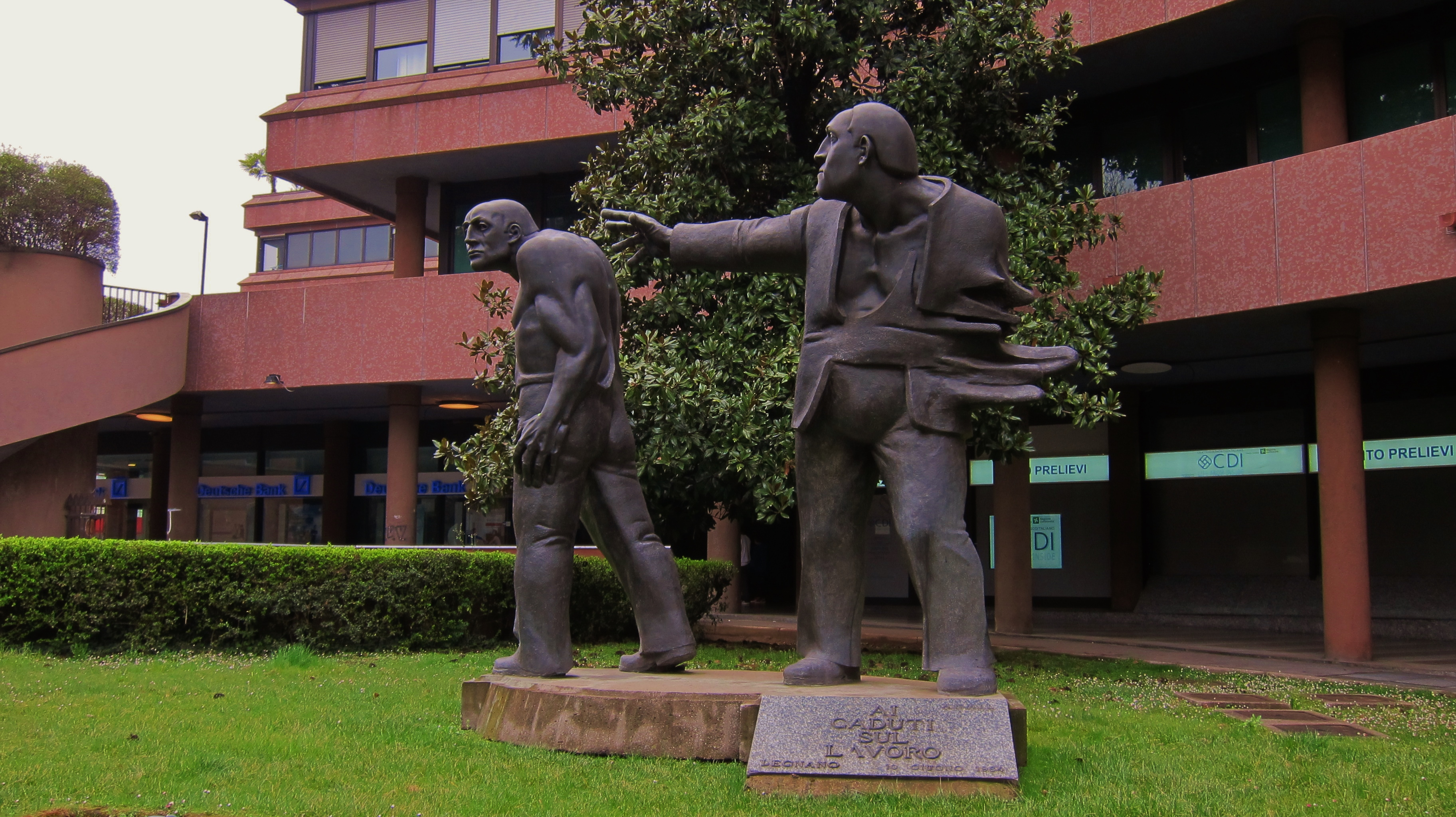 Monument "Ai Caduti sul lavoro" made by Gianluigi Bennati as memorial for the occupational deaths for the assosiation A.N.M.I.L. (National assosiation of mutilated and invalid workers). The statue was set in Corso Italia in Legnano the 10 juni 1984.